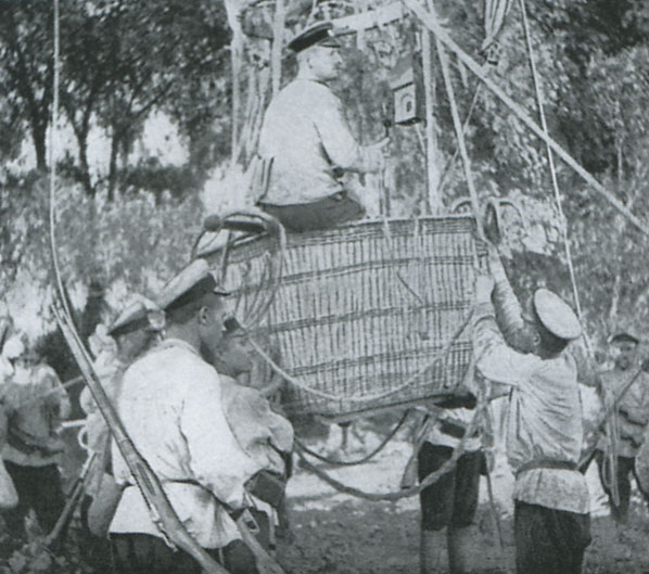 Russian Baloon in the Battle of Liaoyang.